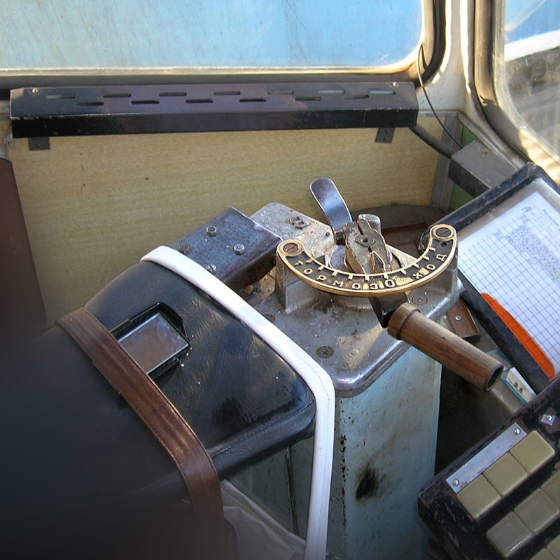 Controller of tramway 71-608M, Zlatoust, Russia